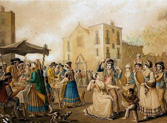 Depiction of the Piedigrotta festival in Naples. The original work is held in the Museo di San Martino, Naples